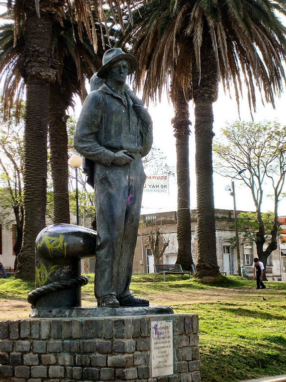 The statue of the Immigrant, Plaza de los Inmigrantes, Villa del Cerro, Montevideo, Urugay.